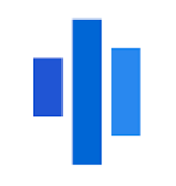 World Plus Logo